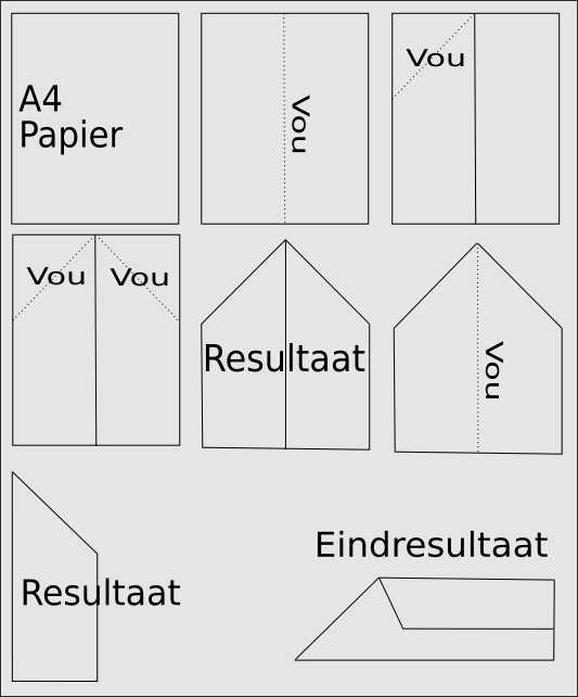 Instructions as to the folding of a paper aeroplane.